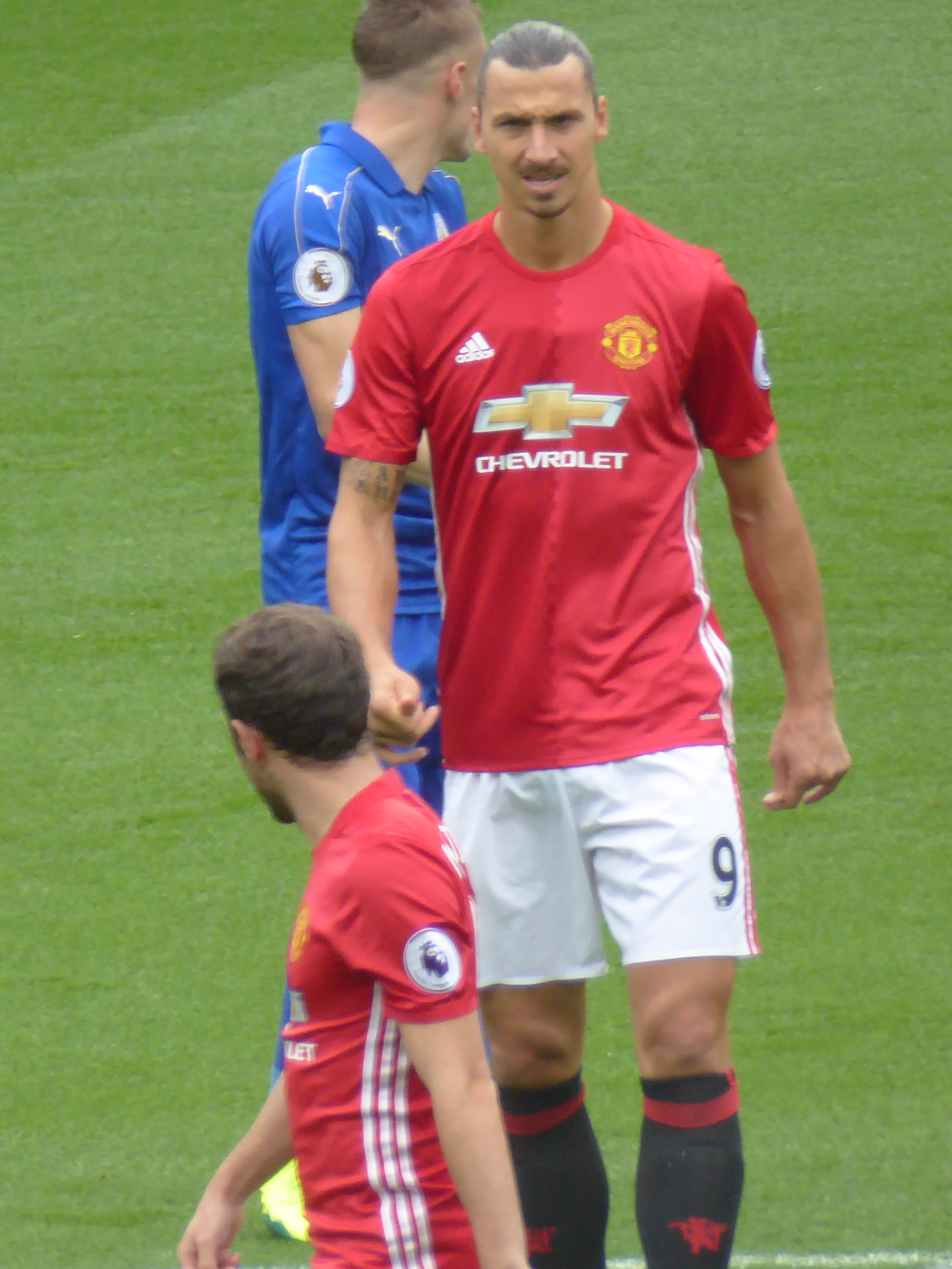 Manchester United v Leicester City (4-1), Old Trafford, Manchester, Greater Manchester, England, September 2016